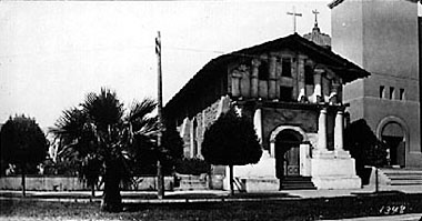 Mission San Francisco de Asis (Dolores) prior to the 1906 San Francisco earthquake. Photograph by William Amos Haines. img URL